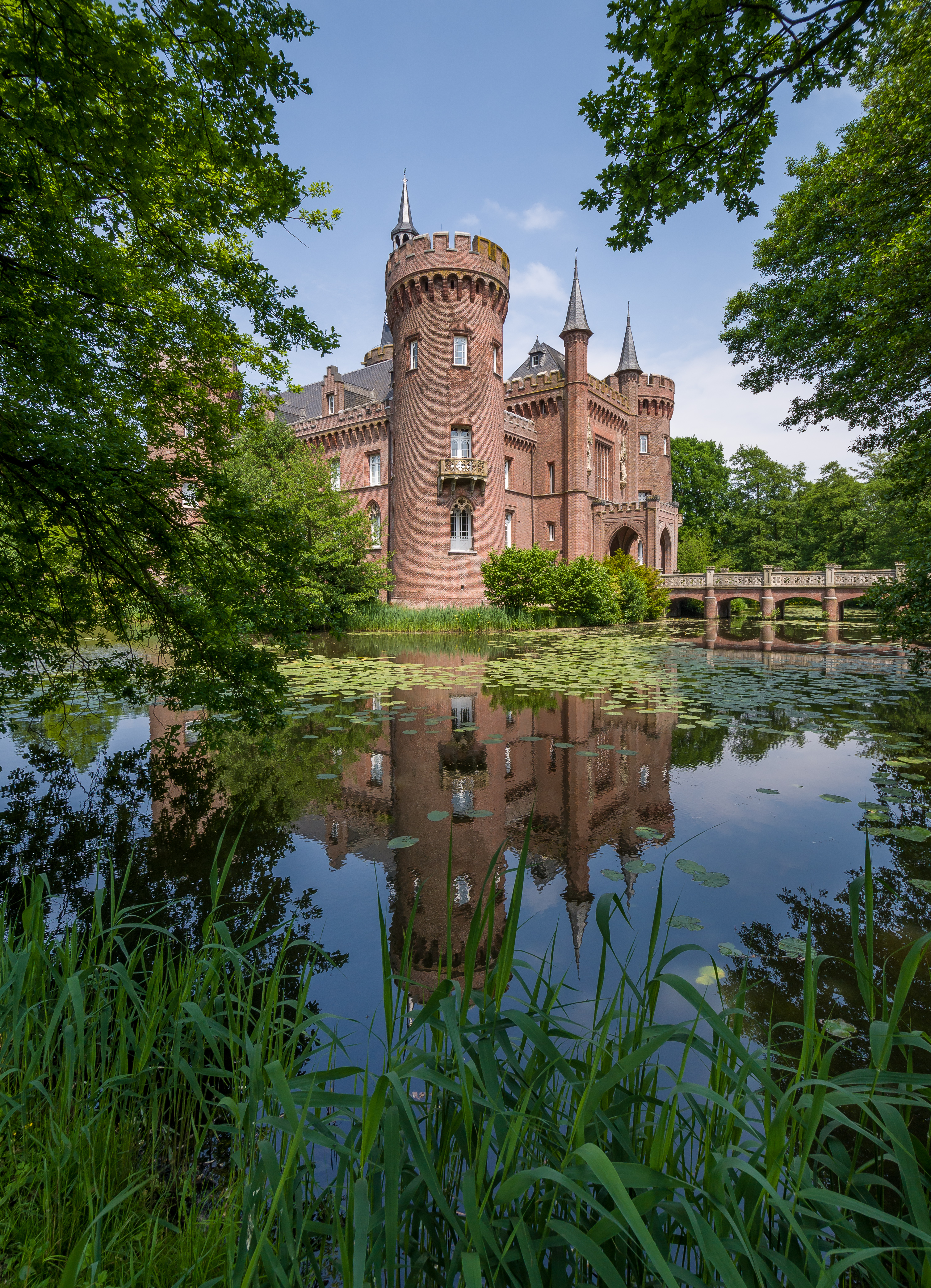 Moyland Castle, side view.